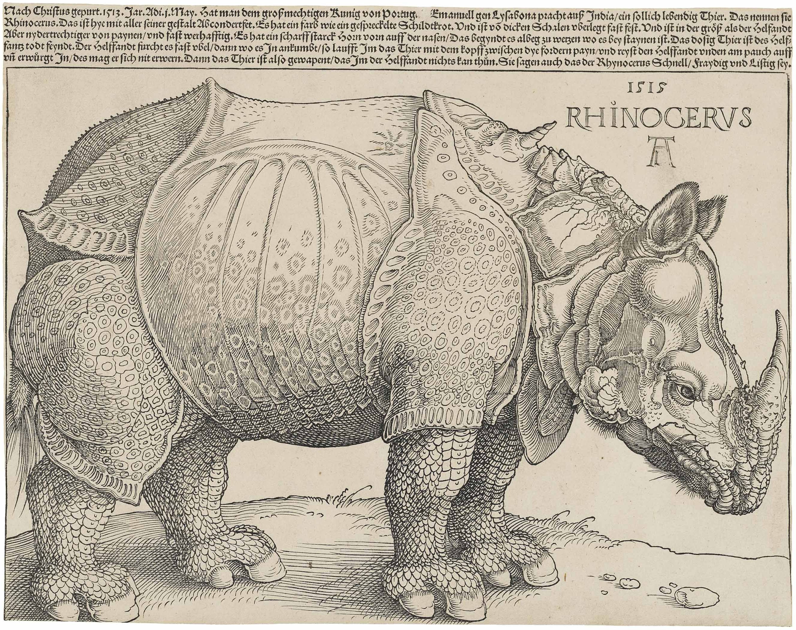 first edition woodcut with complete letterpress text above. Sold at auction in 2013 for $866,500.